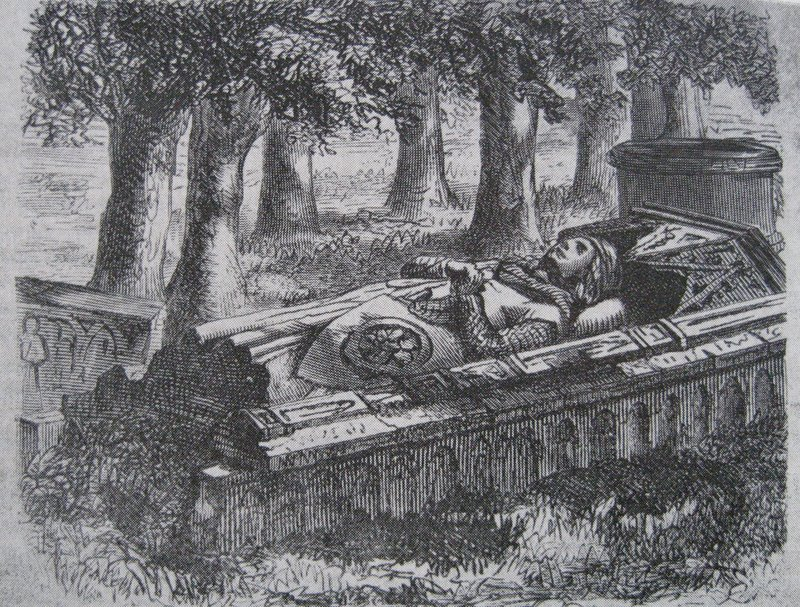 Graftombe ridder van der Sluijs in het weiland in Berne, Netherlands, 1870